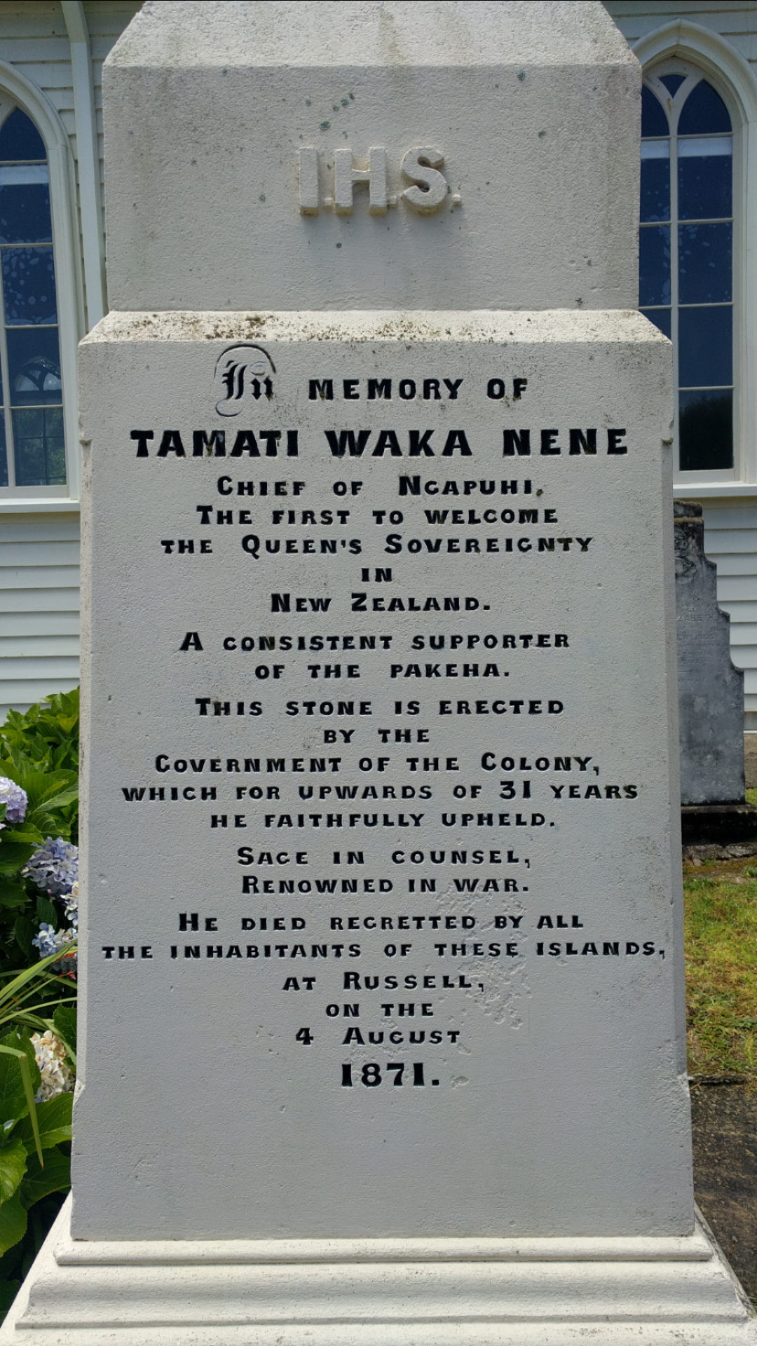 Tāmati Wāka Nene's memorial gravestone in Christ Church, Russel, New Zealand.